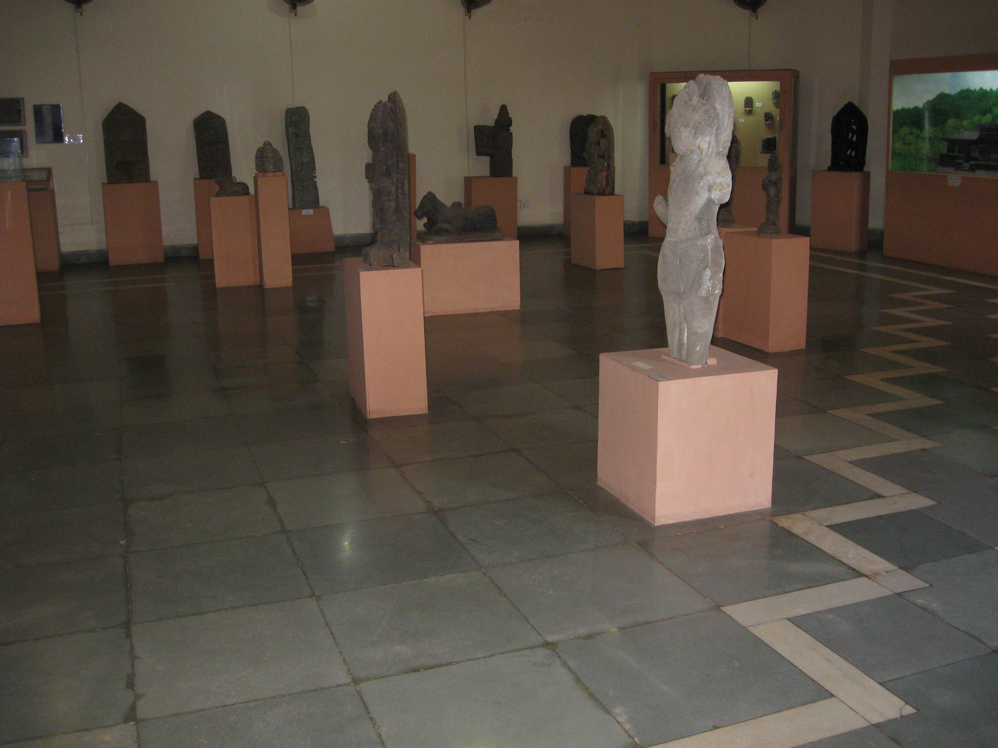 Artifacts on display, some from B.C era in the Sculpture Gallery at the Goa State Museum